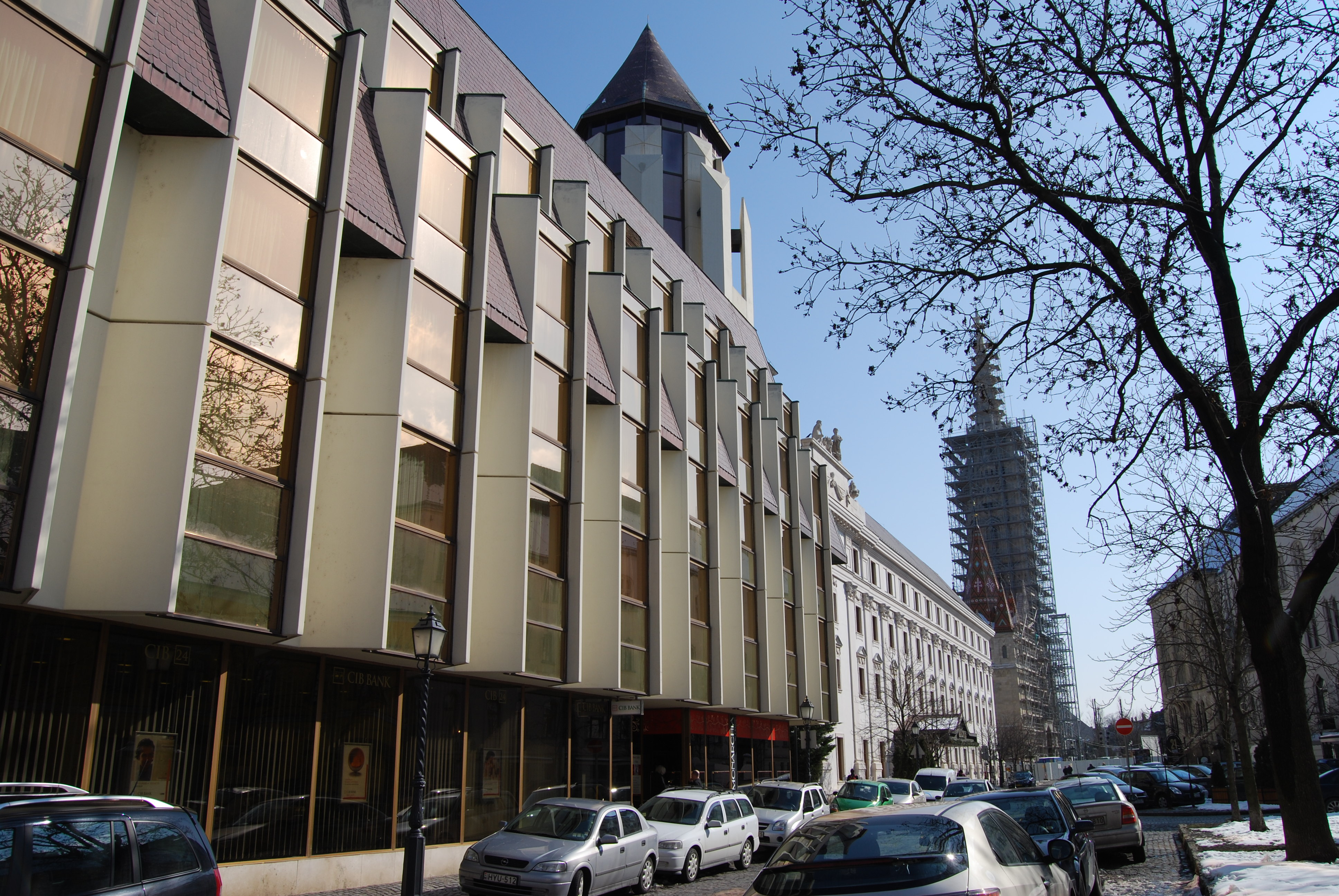 Hotel Hilton Budapest in Budapest, Hungary - Google Maps - Google Earth